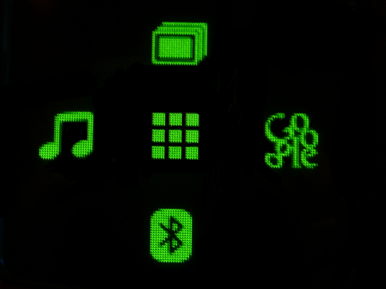 U900's touch screen.